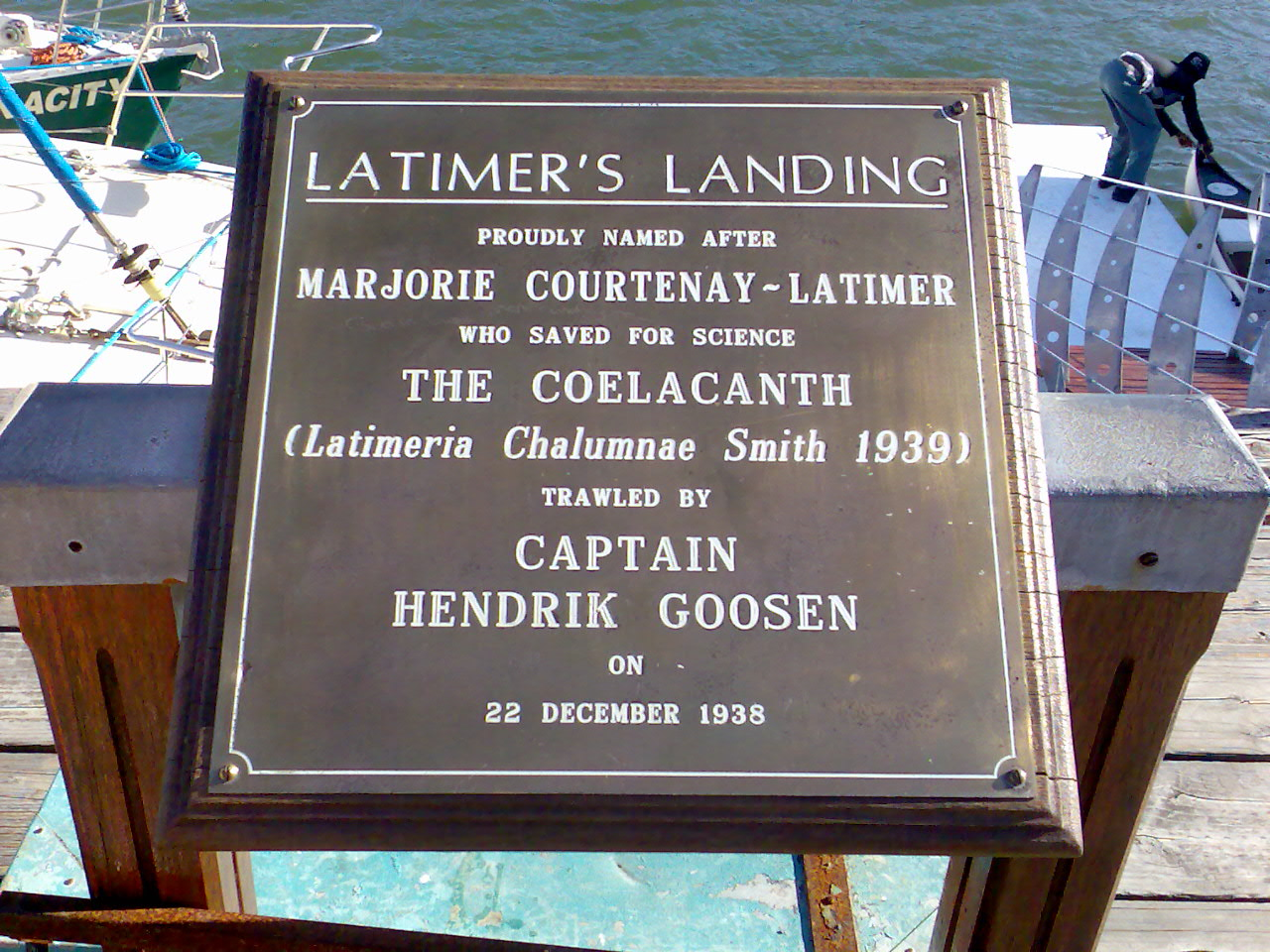 Author: Gregorydavid 10:23, 20 December 2006 (UTC)